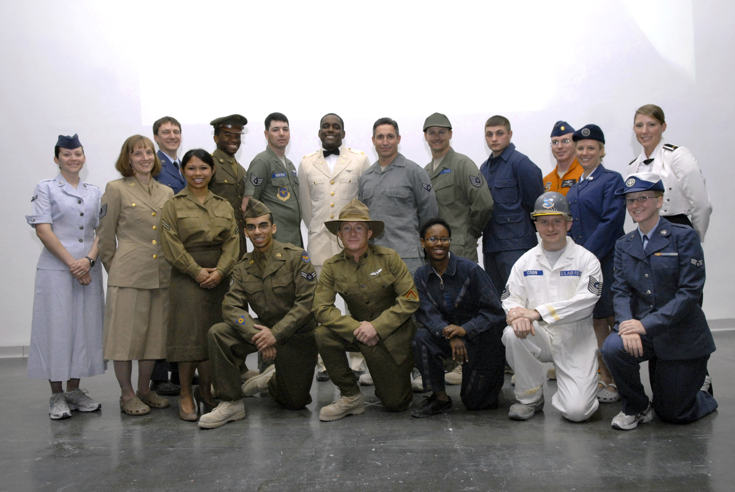 Airmen pose for a group photo during Operation Uniform Delta April 27 at a base in Southwest Asia. Operation Uniform Delta was an event displaying the history of the Air Force uniform and the changes that it underwent through the years. (U.S. Air Force photo/Senior Airman Andrew Satran)